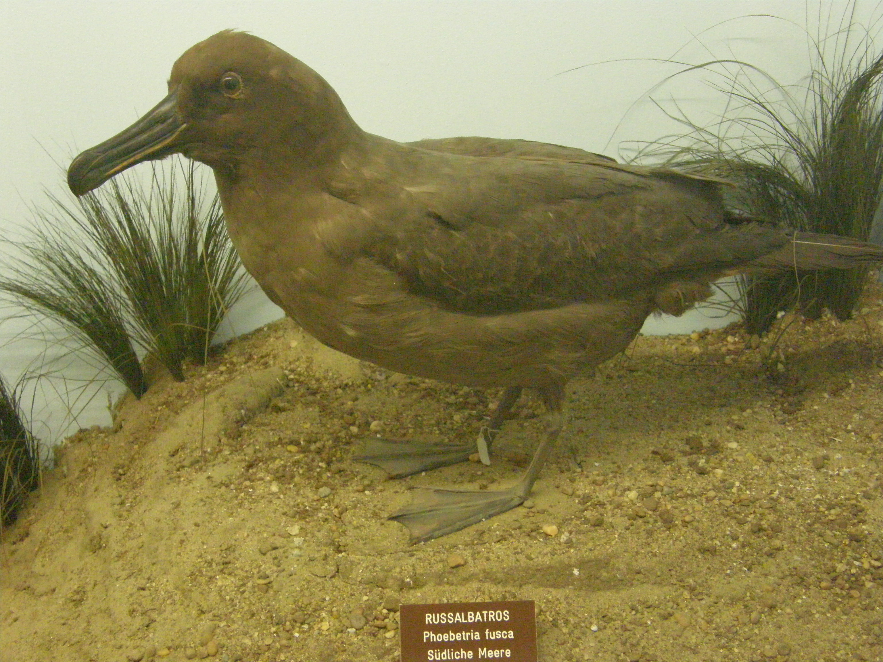 Stuffed specimen of a Dark-mantled Sooty Albatross at the Naturhistorisches Museum Wien, Vienna, Austria.